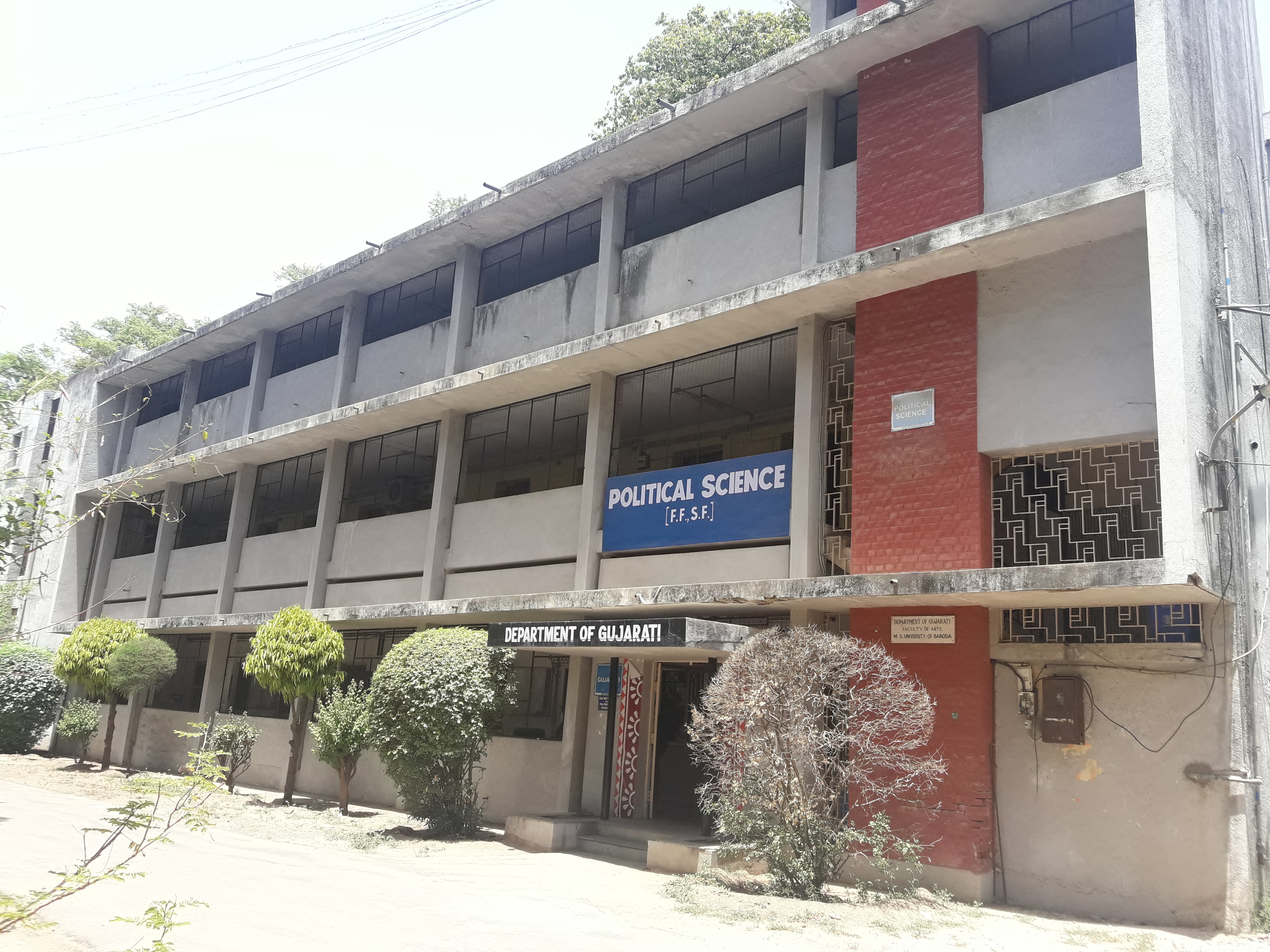 Building of Department of Gujarati, Maharaja Sayajirao University, Vadodara, India